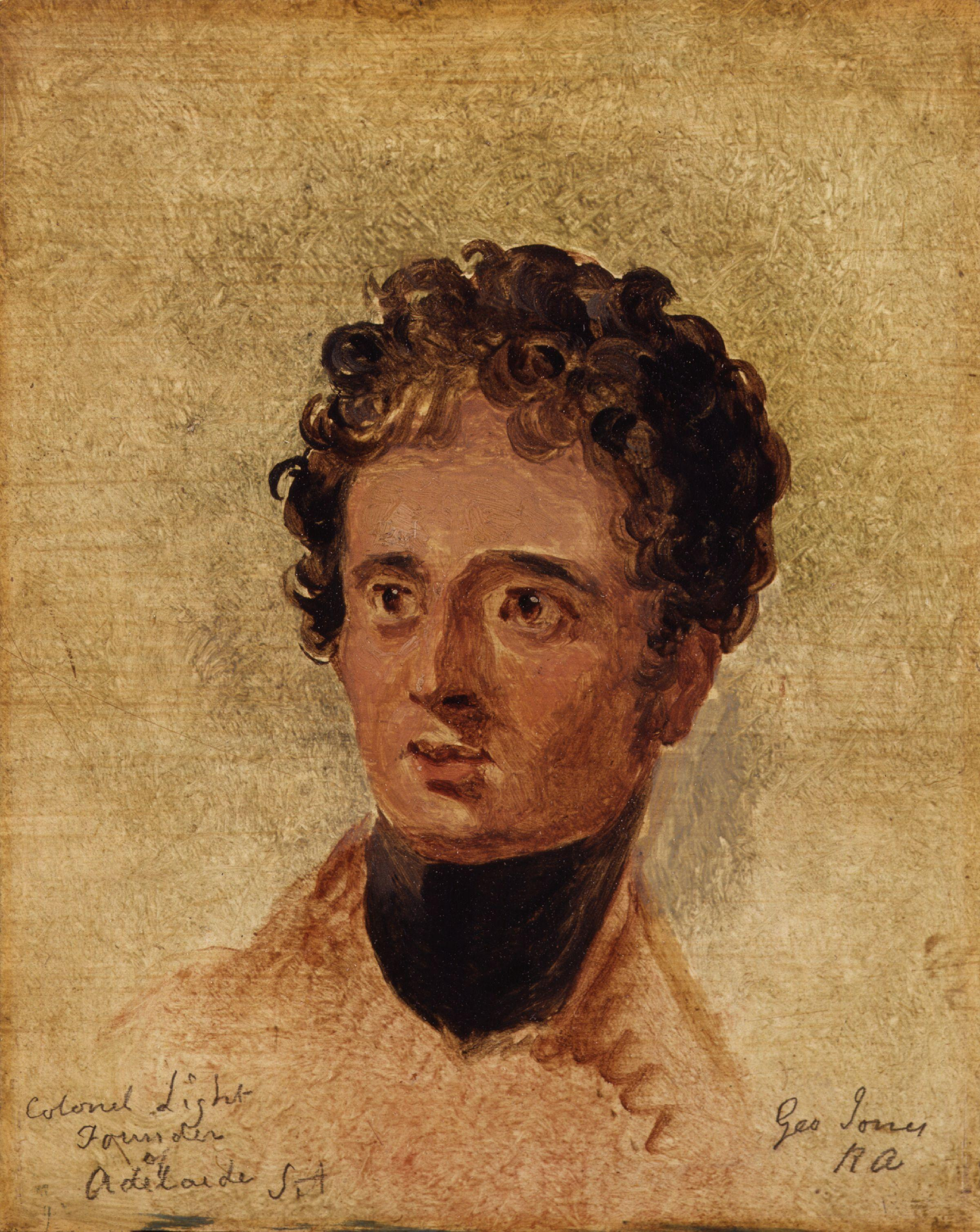 William Light, by George Jones (died 1869), given to the National Portrait Gallery, London in 1871. Designed Adelaide. All images in this batch have been confirmed as author died before 1939 according to the official death date listed by the NPG.